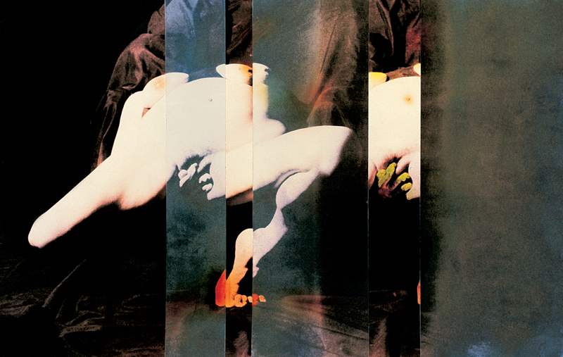 B&W, hand colored photo